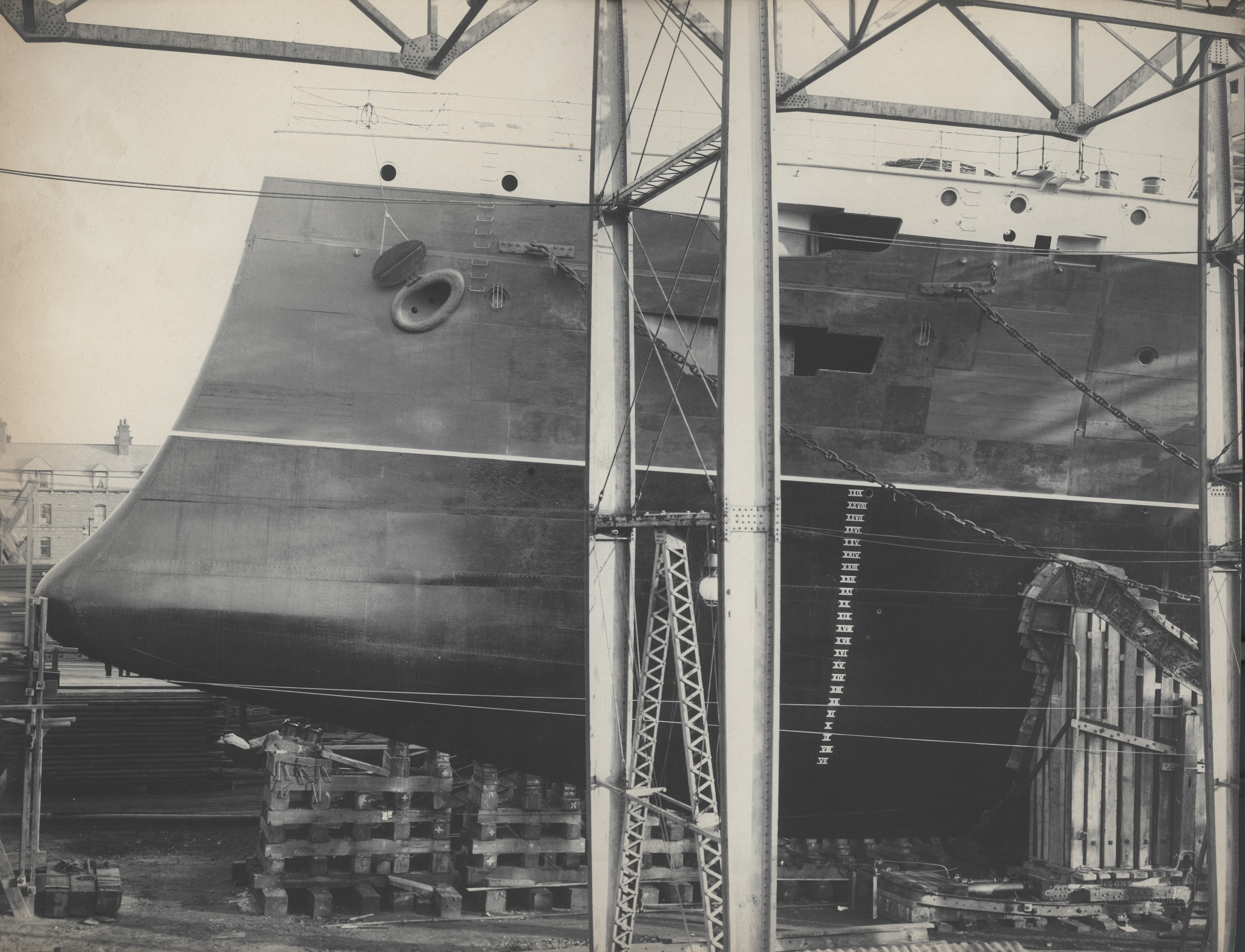 Format: Fotopositiv Dato / Date: ca. 1901 Fotograf / Photographer: Ukjent Sted / Place: Barrow-in-Furness, England Wikipedia: HMS King Alfred (1901) Wikipedia: Vickers Limited Eier / Owner Institution: Trondheim byarkiv, The Municipal Archives of Trondheim Arkivreferanse / Archive reference: Tor.H44.L01.F9326